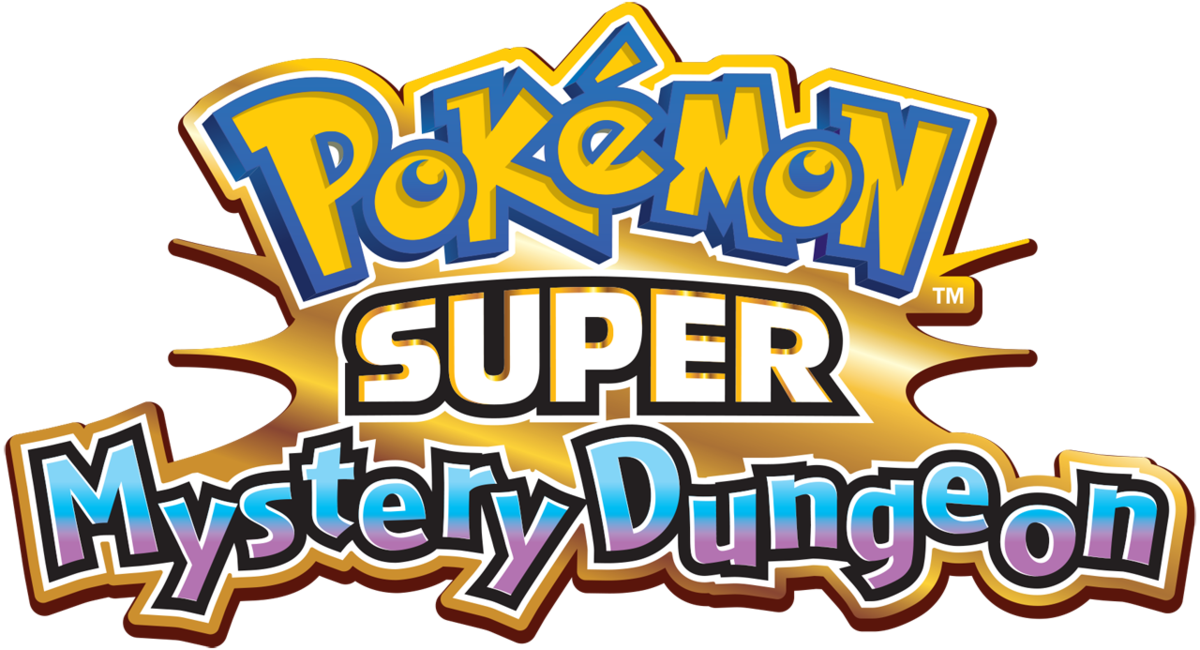 the logo of the Nintendo game 'Pokémon Super Mystery Dungeon'